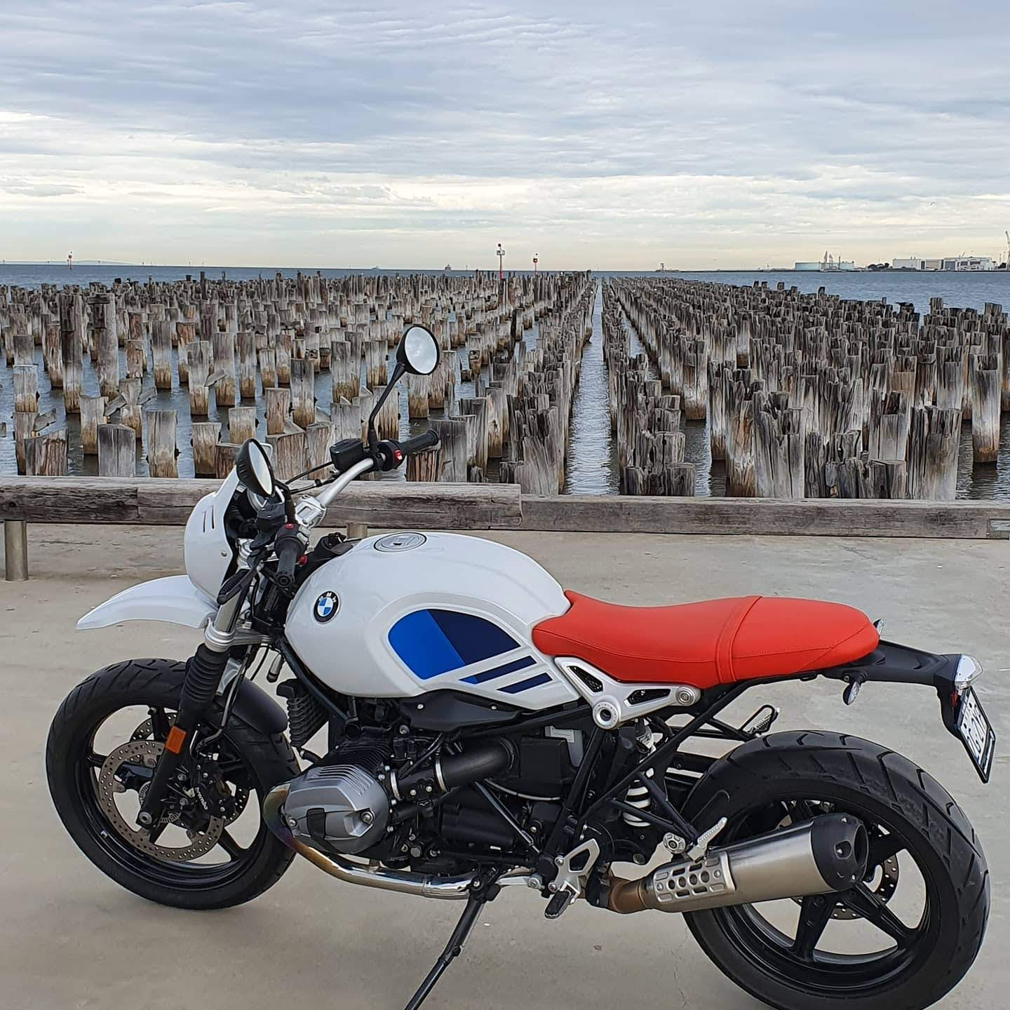 BMW R Nine T Urban GS motorcycle